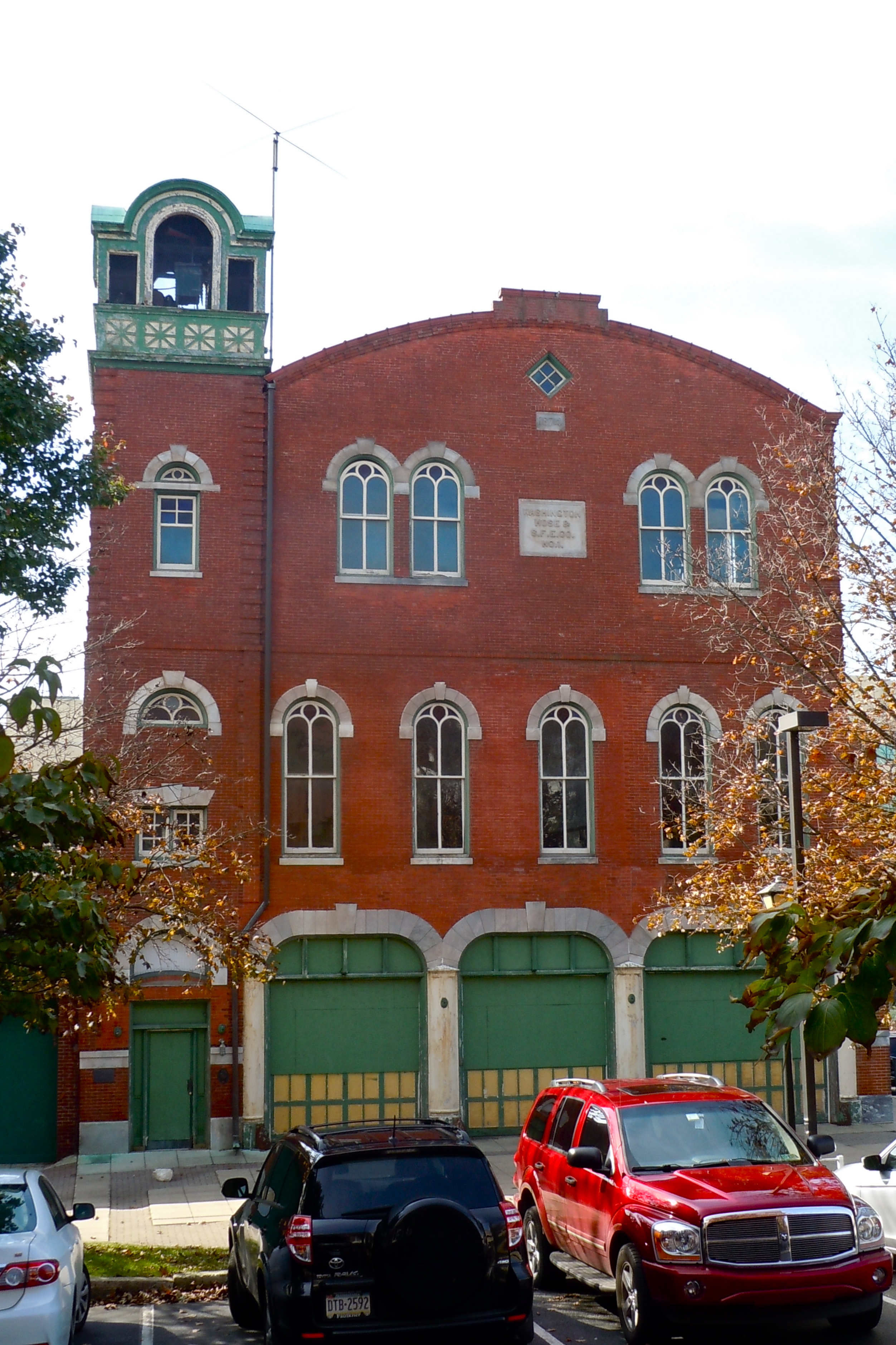 Washington Hose and Steam Fire Engine Company, No. 1 on the NRHP since November 20, 1975. At 15 West Hector Street, Conshohocken, Montgomery County, Pennsylvania